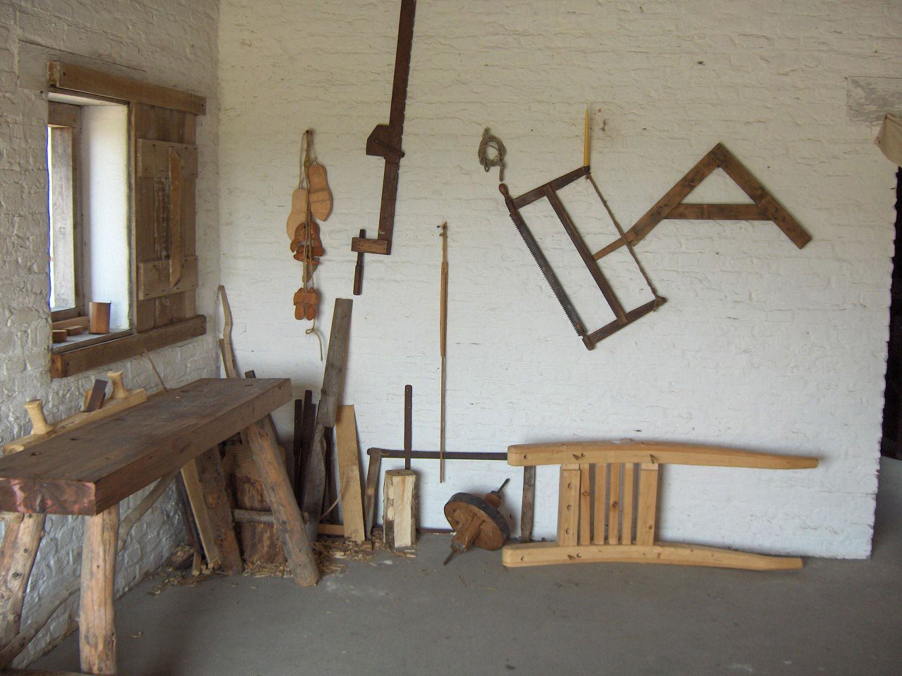 tools of a medieval carpenter, c. 1465; at the archeological site of Walraversijde, near Oostende, Belgium